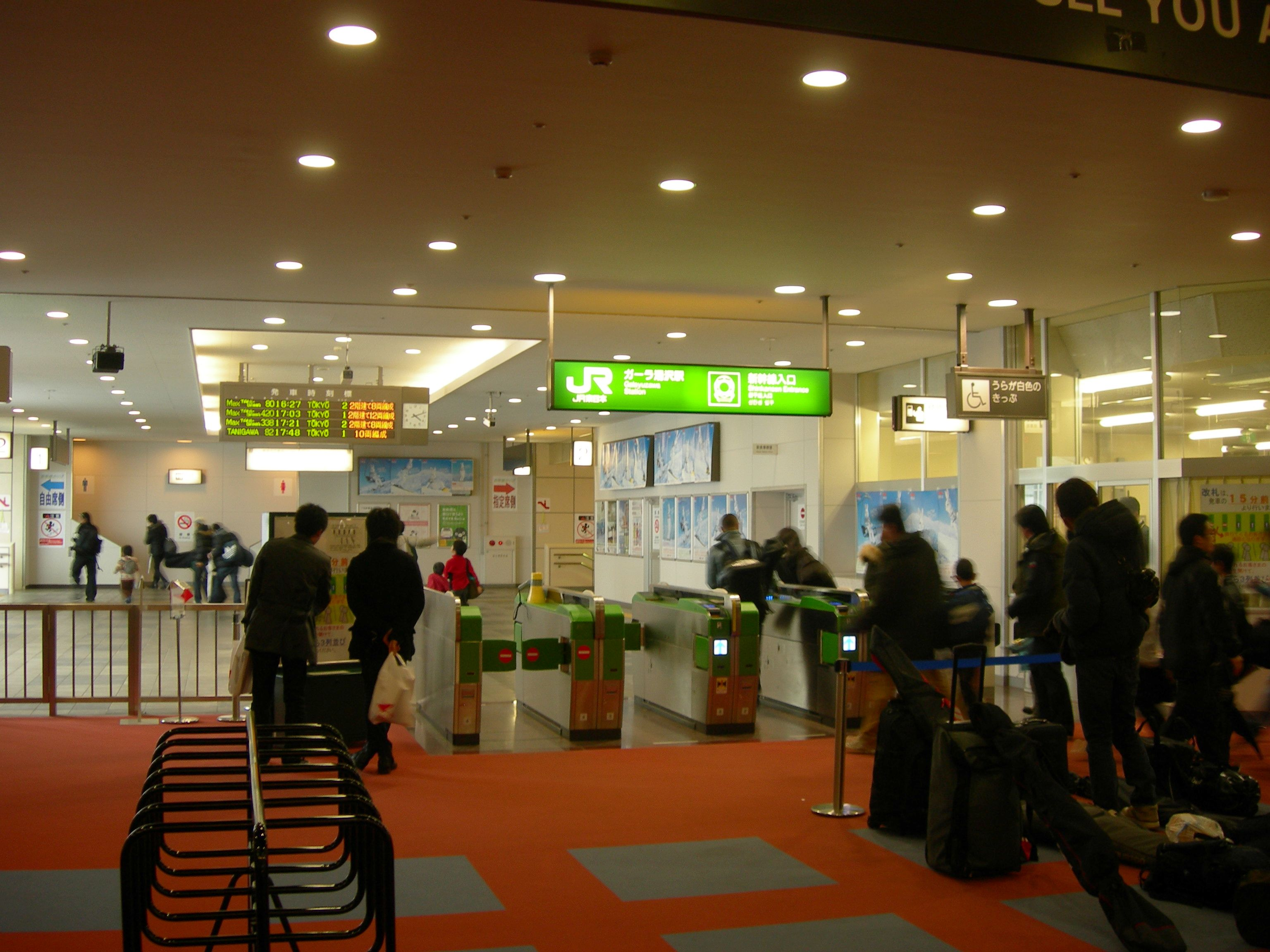 The ticket barriers at Gala Yuzawa Station in Niigata Prefecture, Japan